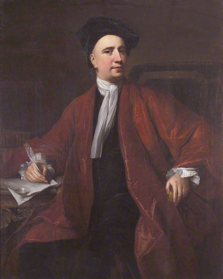 Self portrait oil on canvas 12.5 x 9.8 cm circa 1751